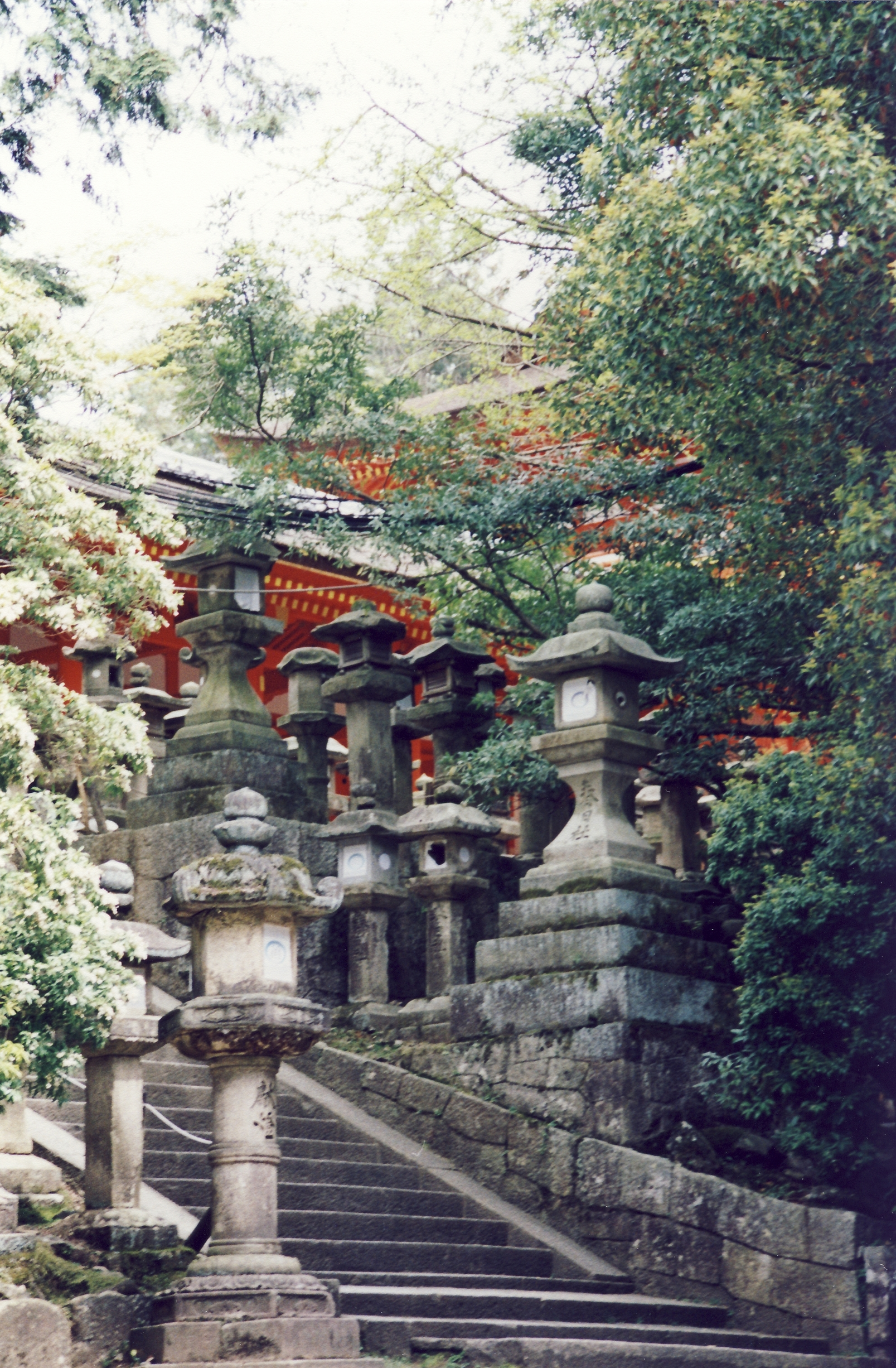 Somewhere in Nara, Japan